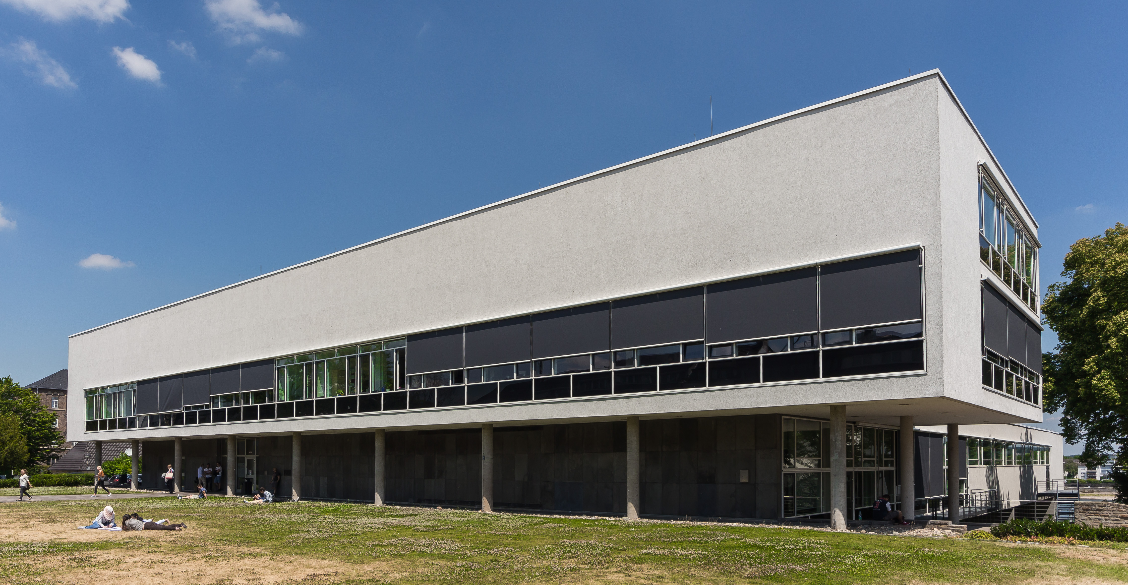 Main building of the academic library of the University of Bonn, view from southwest